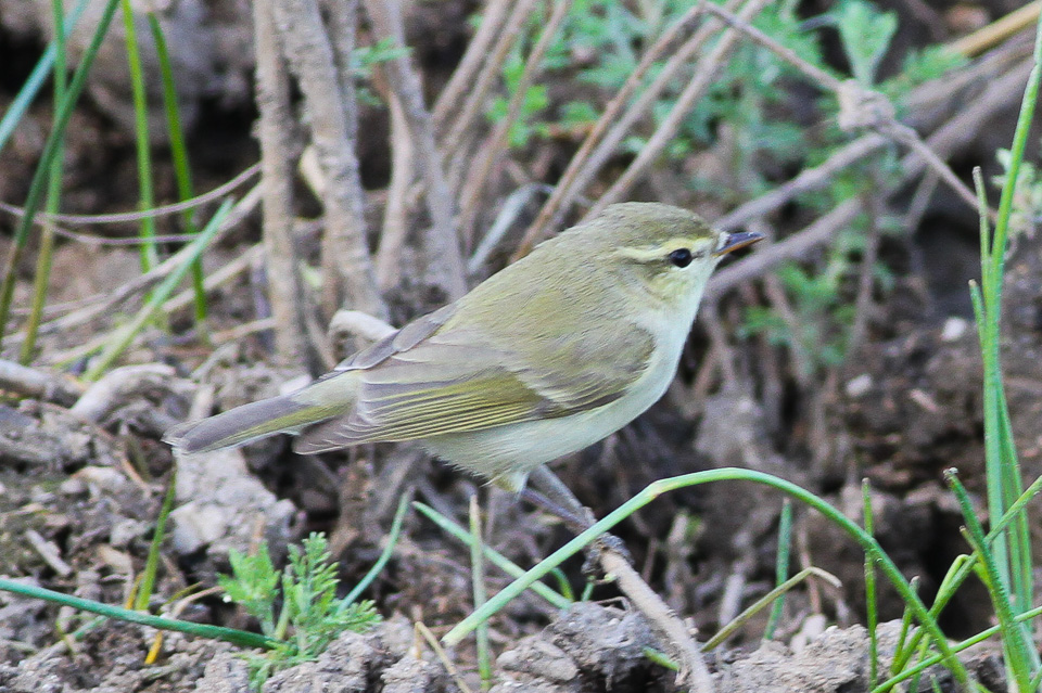 Greenish Warbler Phylloscopus trochiloides, on journey Astana to Kurgaldzhin